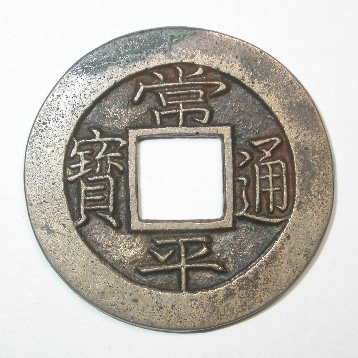 Sangpyeongtongbo